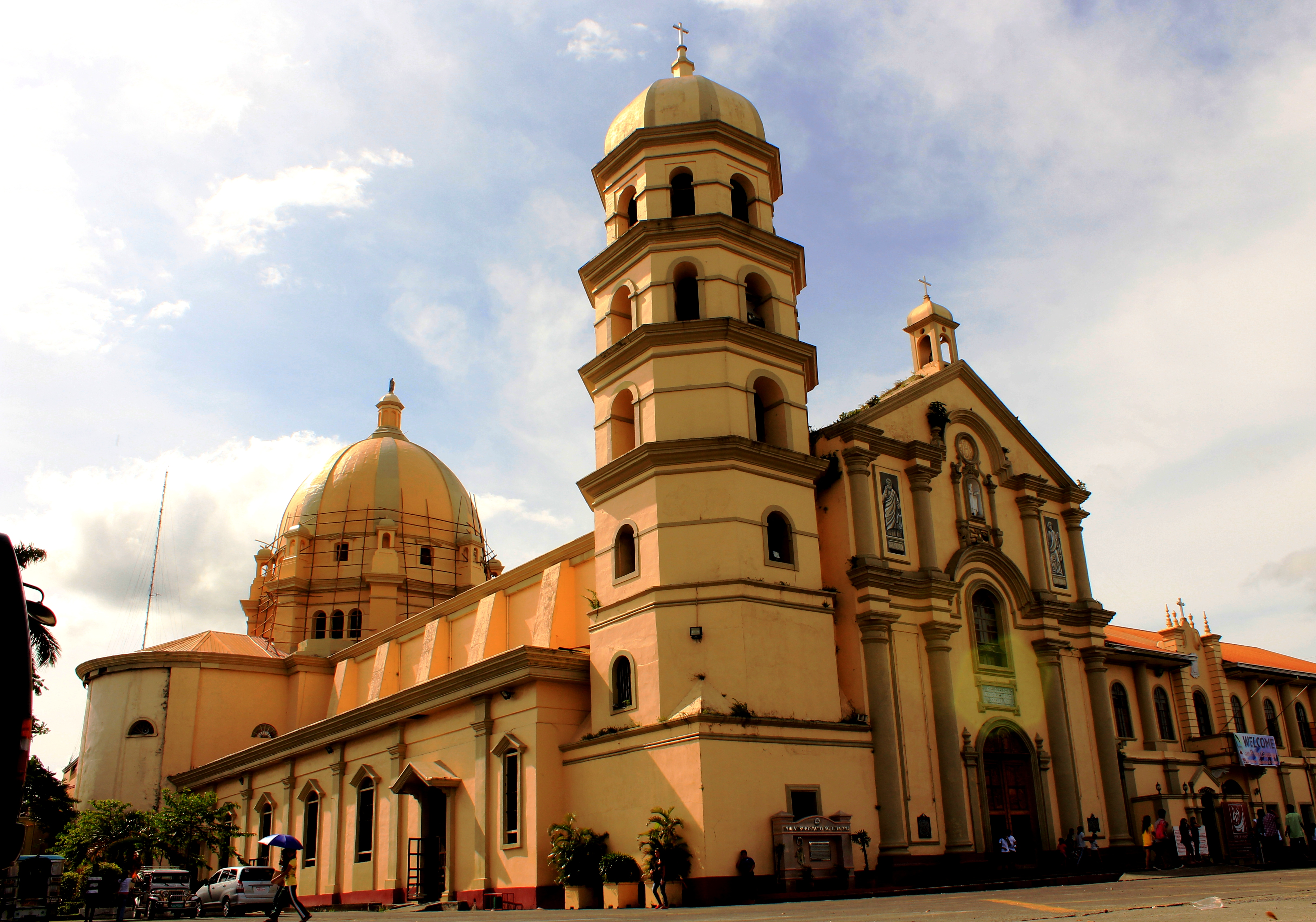 The Metropolitan Cathedral of Saint Sebastian. Poblacion district of Lipa City, Batangas province, the Philippines.